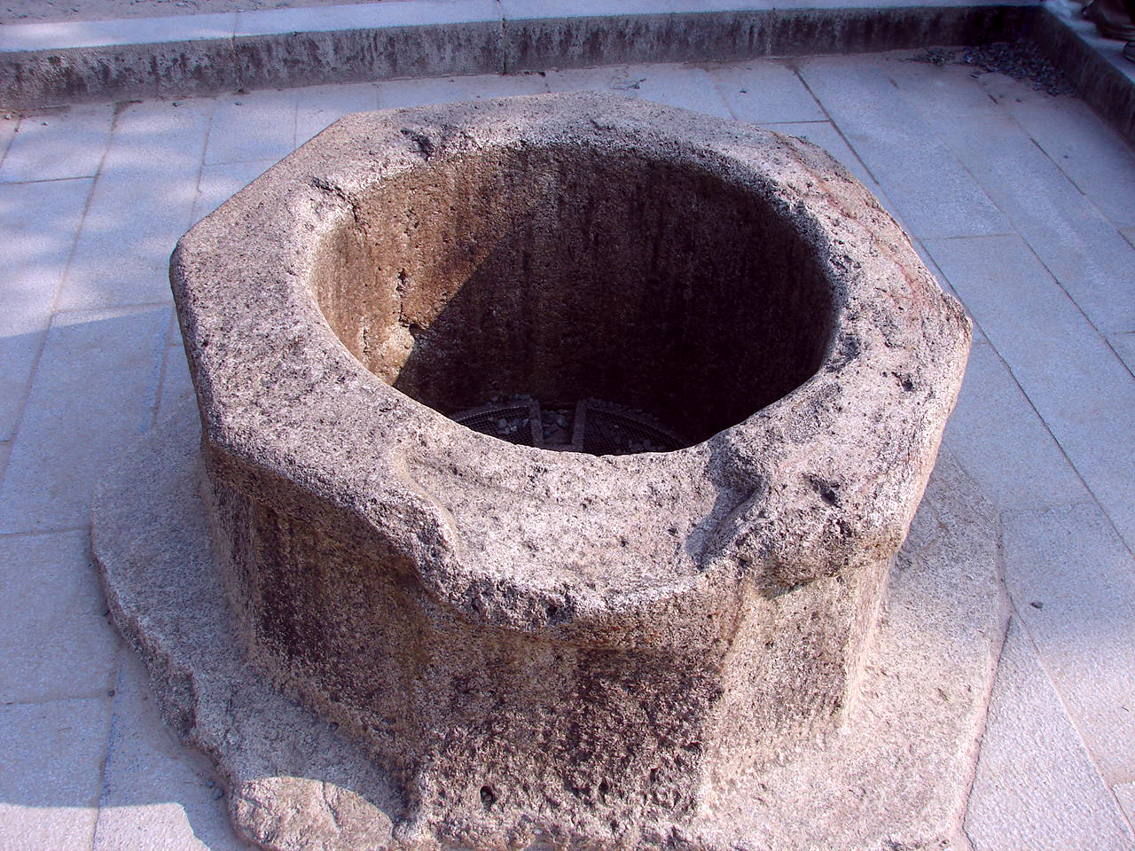 Located at Bunhwangsa is a well called Hogukyongbyeoneojeong from the Silla period. The well's octagonal upper part extends above the ground 70cm/27.6 in height while the lower part of the well is cylindrical. The structure of the well represents Buddhism's essence. [edit] Legend According to legend in the Samguk Yusa, in 795, the 11th year of Silla King Wonseong, missionaries from the Tang Dynasty of visited Silla. The missionaries changed three dragons protecting Silla into small fish and took them away to Tang China with them, hidden in bamboo. The next day two women, identifying themselves as two of the dragons' wives, living in Dongji pond and Cheongji pond, came to the king and asked the king to retrieve their dragon husbands taken by the Tang emissaries. The king immediately sent his men in to bring back the dragons, permitting them live in the Bunhwangsa well.